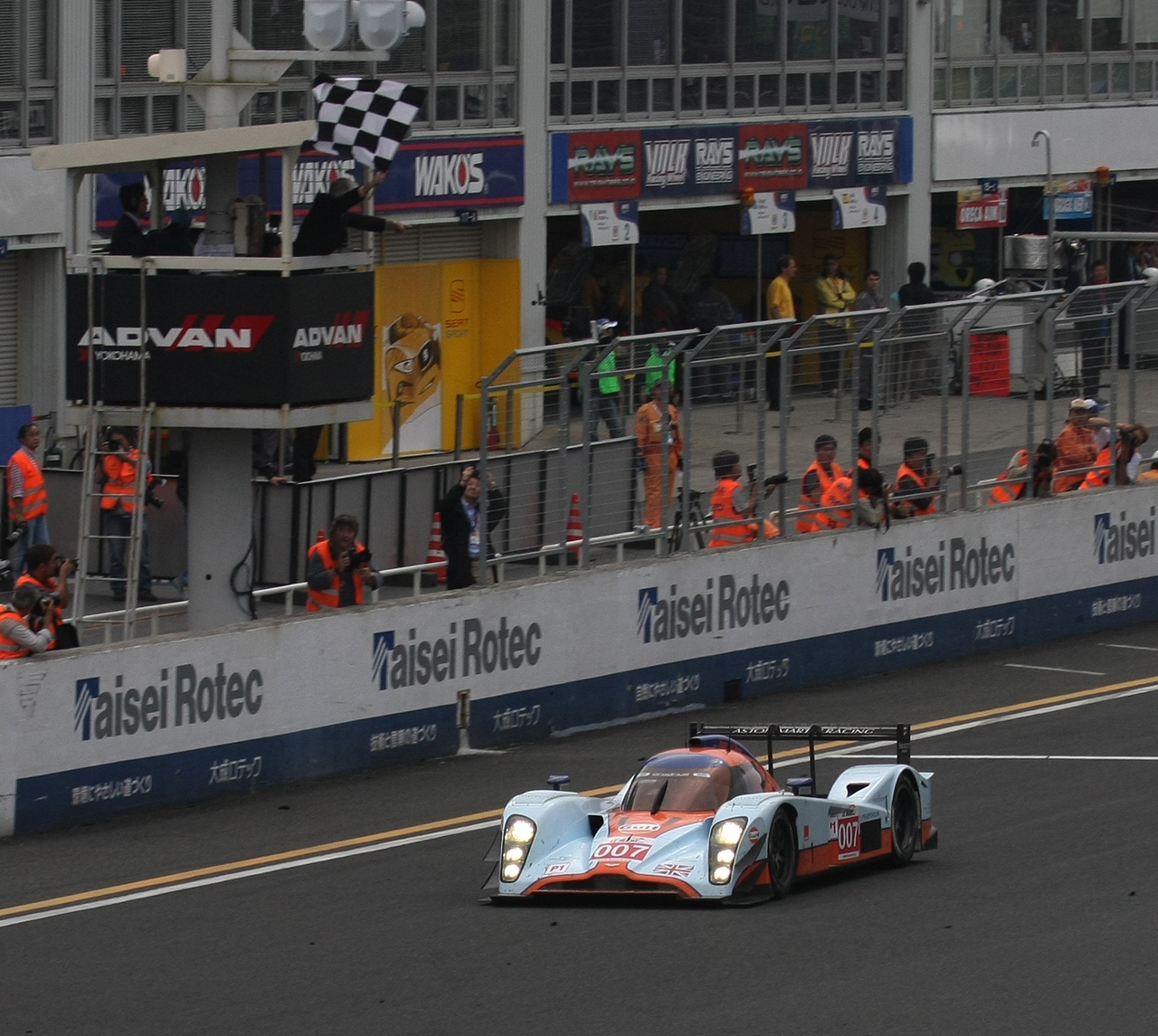 Asian Le Mans Series 2009 1000km of Okayama: Aston Martin Racing won the Race 2.